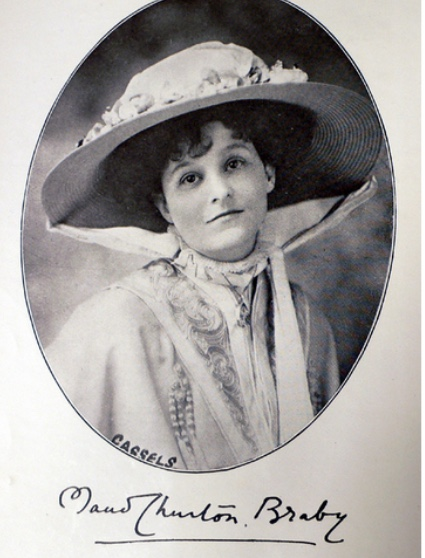 Maud Churton Braby, photographed c. 1911 by Amy Cassels